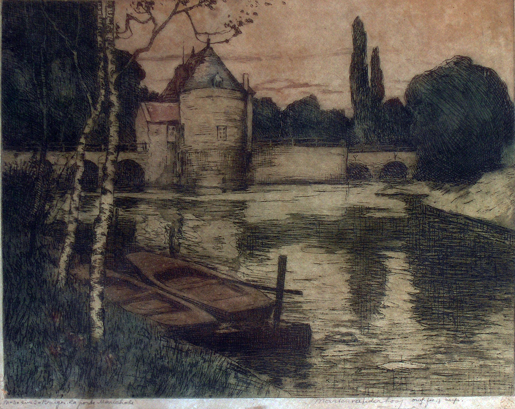 "Bruges, La Porte Maréchale" (De Smedenpoort), gekleurde ets door Marten Vanderloo (1880-1920); privé-bezit